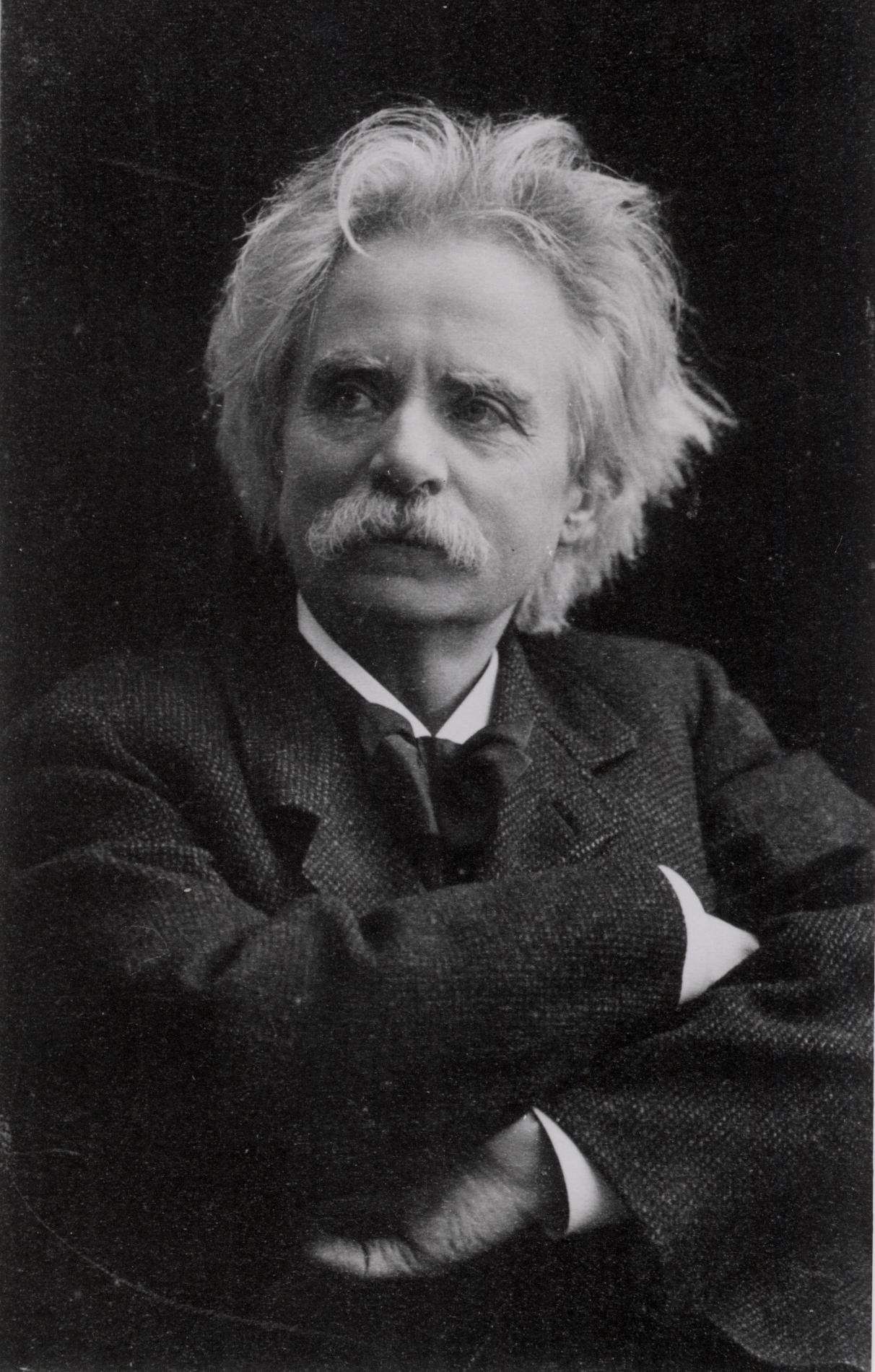 Artist: unknown Date/place: ca. 1903, unknown location Subject: Edvard Grieg Medium: photographic positive, B&W Notes: original belongs to the Picture Collection at Bergen University Library Persistent URL: [#//nettbiblioteket.no/grieg-samlingen/engelsk/grieg_intro_eng.html” Original belongs to the Edvard Grieg Archives at Bergen Public Library]